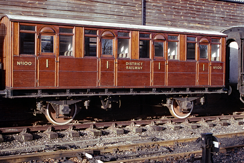 District Railway No 100 first class 4-wheel coach. Seen at Rolvenden on the Kent and East Sussex Railway. Scanned from a Kodachrome 35mm slide